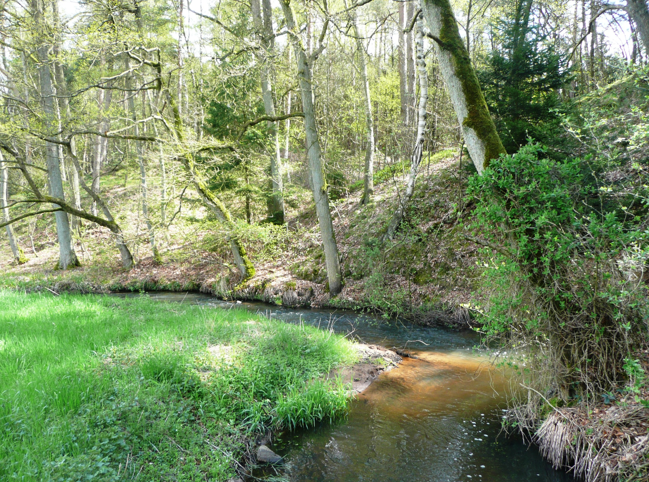 Warnau river near Borg, Lüneburg Heath (Bomlitz, Lower Saxony, Germany)